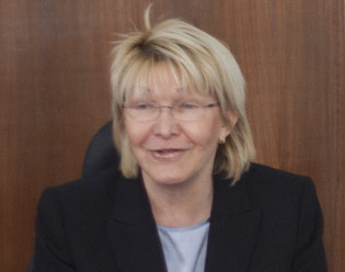 Luisa Ortega Díaz during a UNASUR meeting in March 2015.